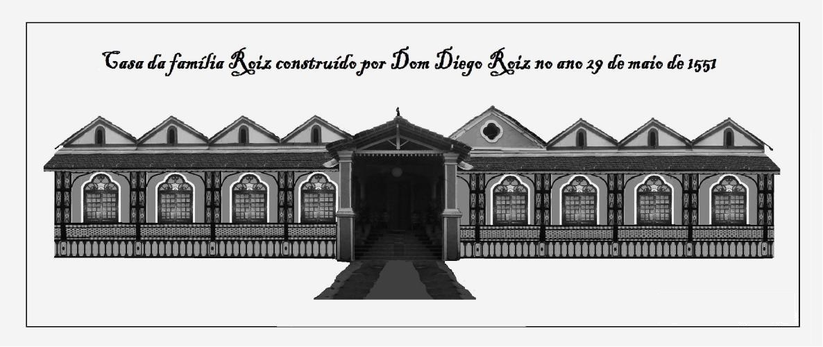 HOUSE